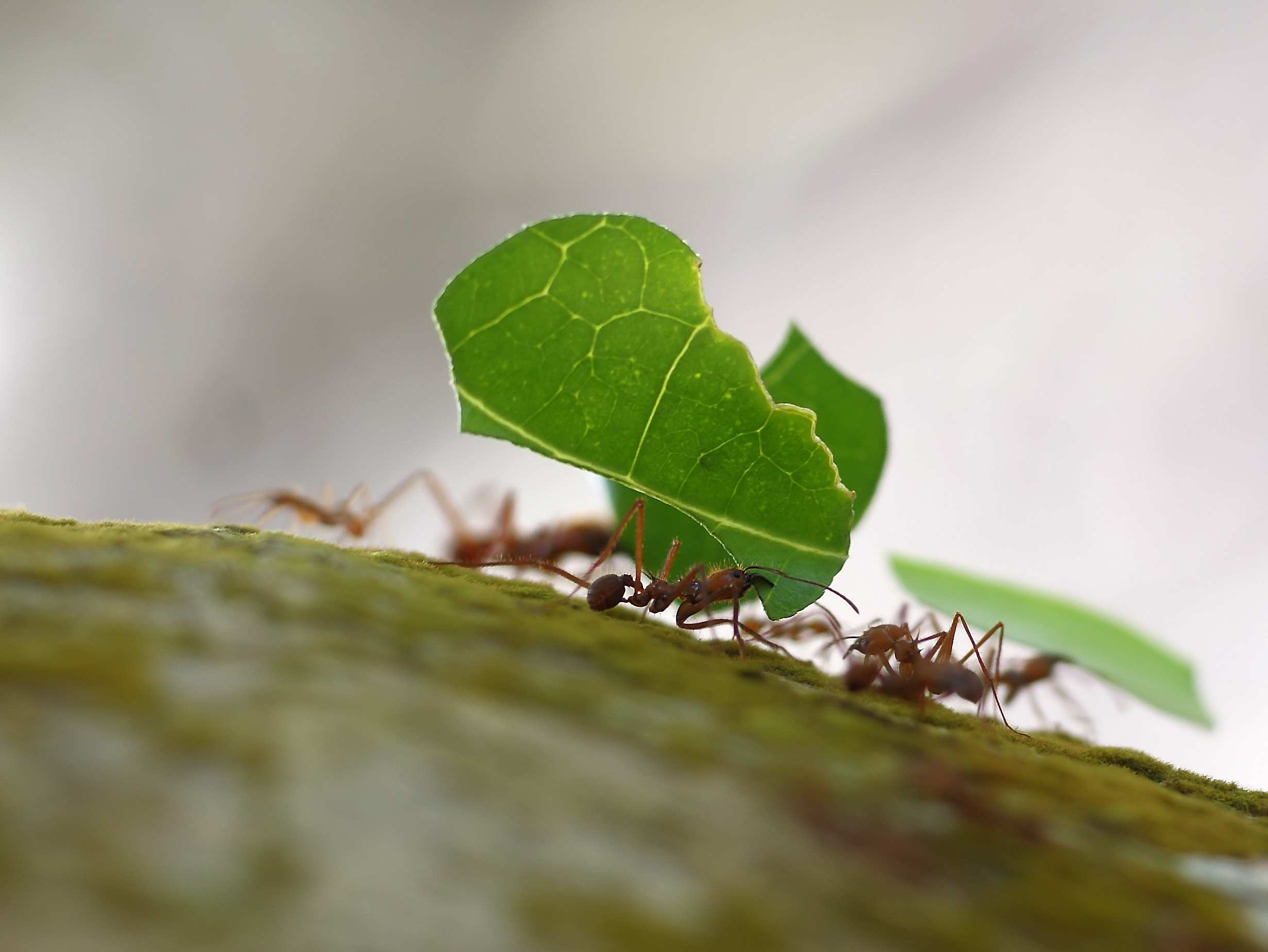 Leaf-cutter ants at Playa Blanca, Cahuita, Costa Rica.